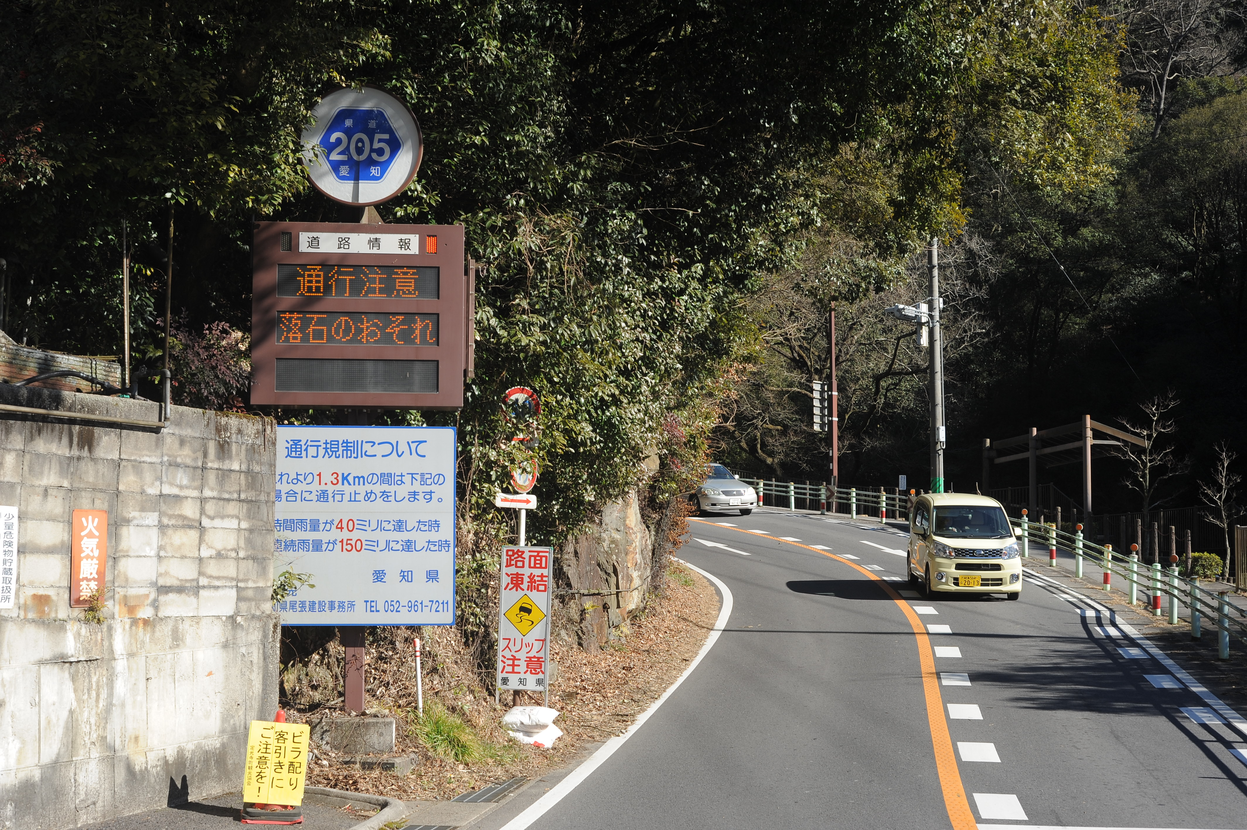 Aichi prefectural Route 205, Seto, Aichi